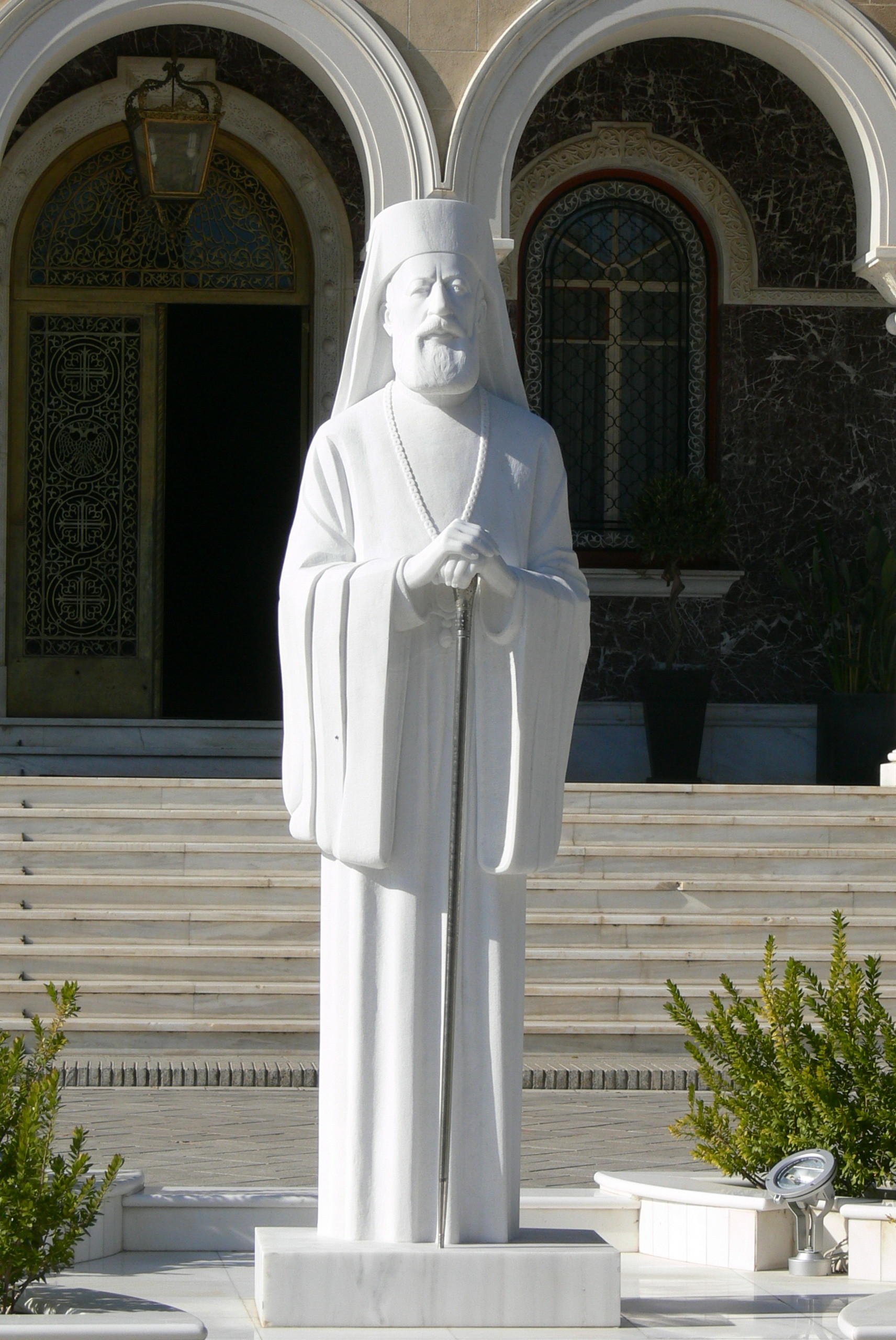 Nicosia (Cyprus). Palace of the archbishop with statue of archbishop Makarios (since 2009).